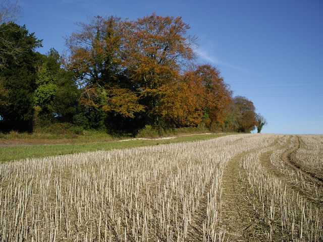 Sparsholt Road. Field and copse by Sparsholt Road, west of Pitt. Looking north